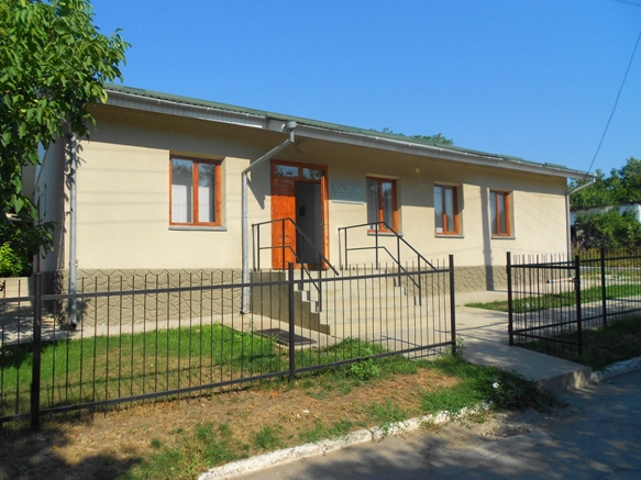 Kingdom Halls in Fălești